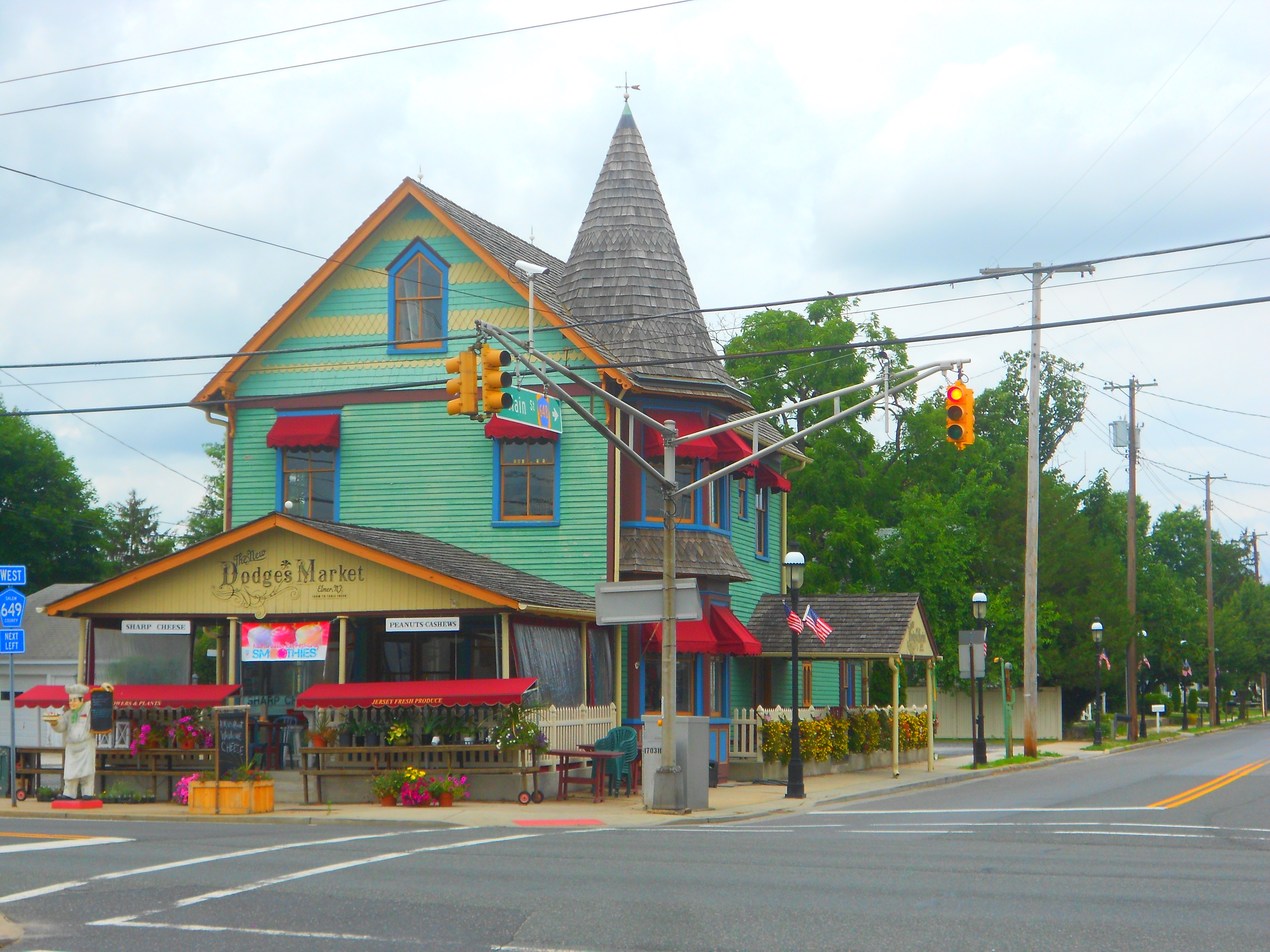 Store in Elmer, New Jersey on US 40